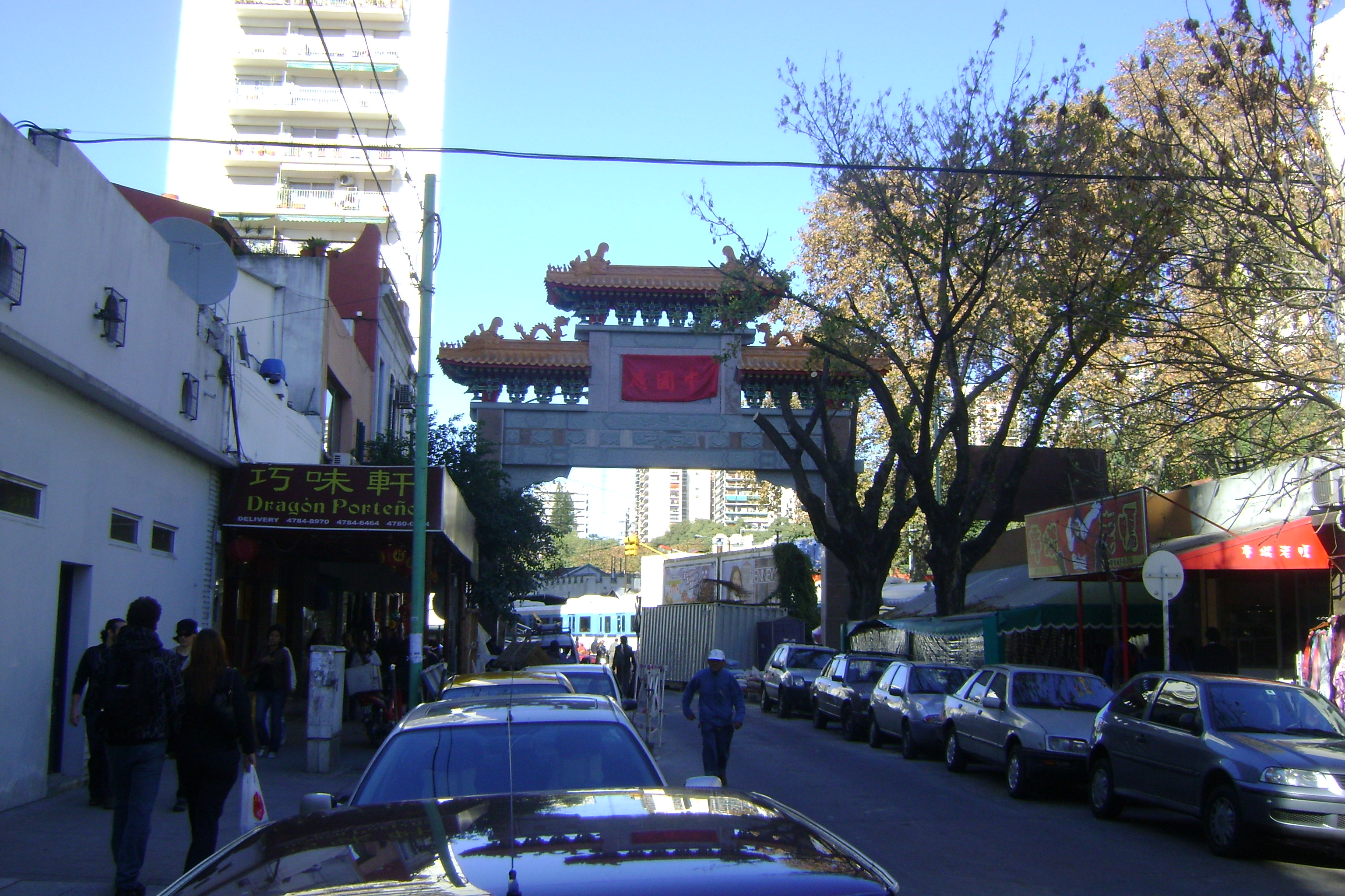 Chinese town in Argentina